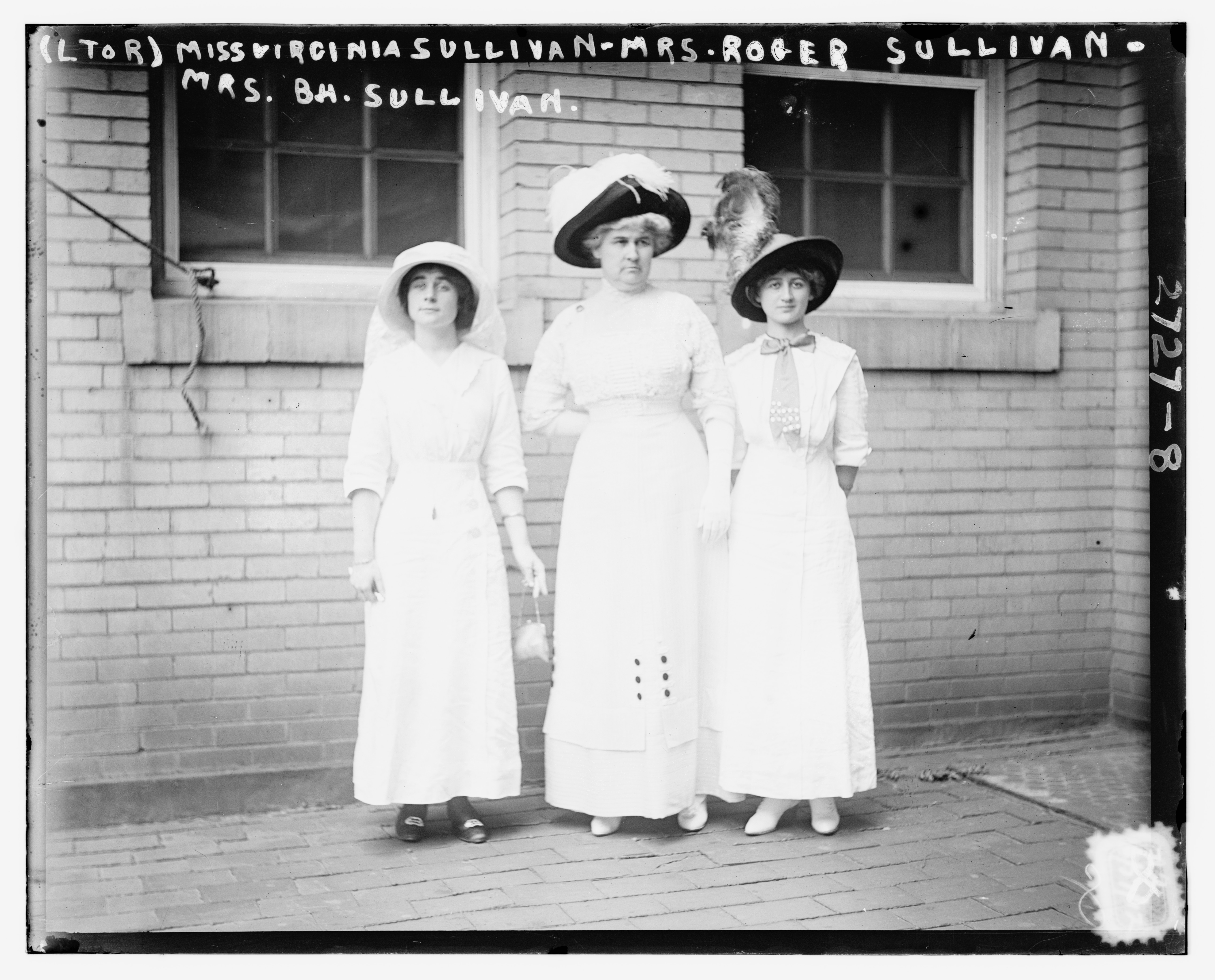 Bain News Service,, publisher. Mrs. Roger Sullivan & daughters [no date recorded on caption card] 1 negative : glass ; 5 x 7 in. or smaller. Notes: Title from unverified data provided by the Bain News Service on the negatives or caption cards. Forms part of: George Grantham Bain Collection (Library of Congress). Format: Glass negatives. Repository: Library of Congress, Prints and Photographs Division, Washington, D.C. 20540 USA, General information about the Bain Collection is available at Persistent URL: Call Number: LC-B2- 2727-8